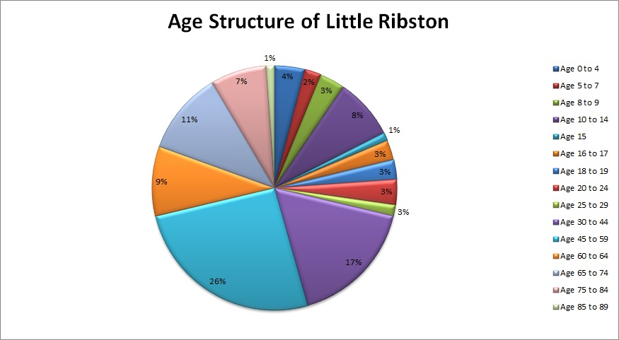 Using the 2011 census data created a pie chart to show the age structure of Little Ribston, in North Yorkshire.